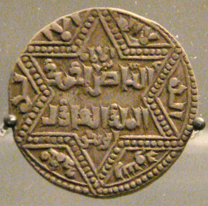 Coin of Ayyubid Az-Zahir 1204, Aleppo, with a hexagram.